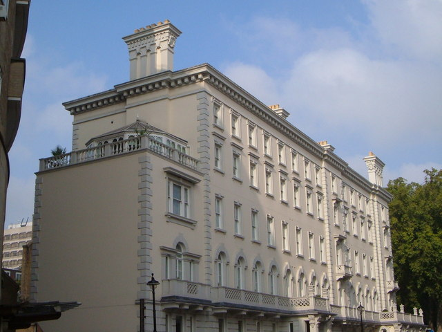 Lowndes Street, Belgravia An impressive early Victorian block at the north end of Lowndes Street, where it enters Lowndes Square (the trees on the right).